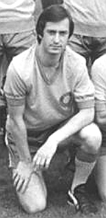 Title: Mannschaftsfoto 1. FC Lok Leipzig Factual corrections and alternative descriptions are encouraged separately from the original description. Additionally errors can be reported at this page to inform the Bundesarchiv. Original historic description: Andreas Roth